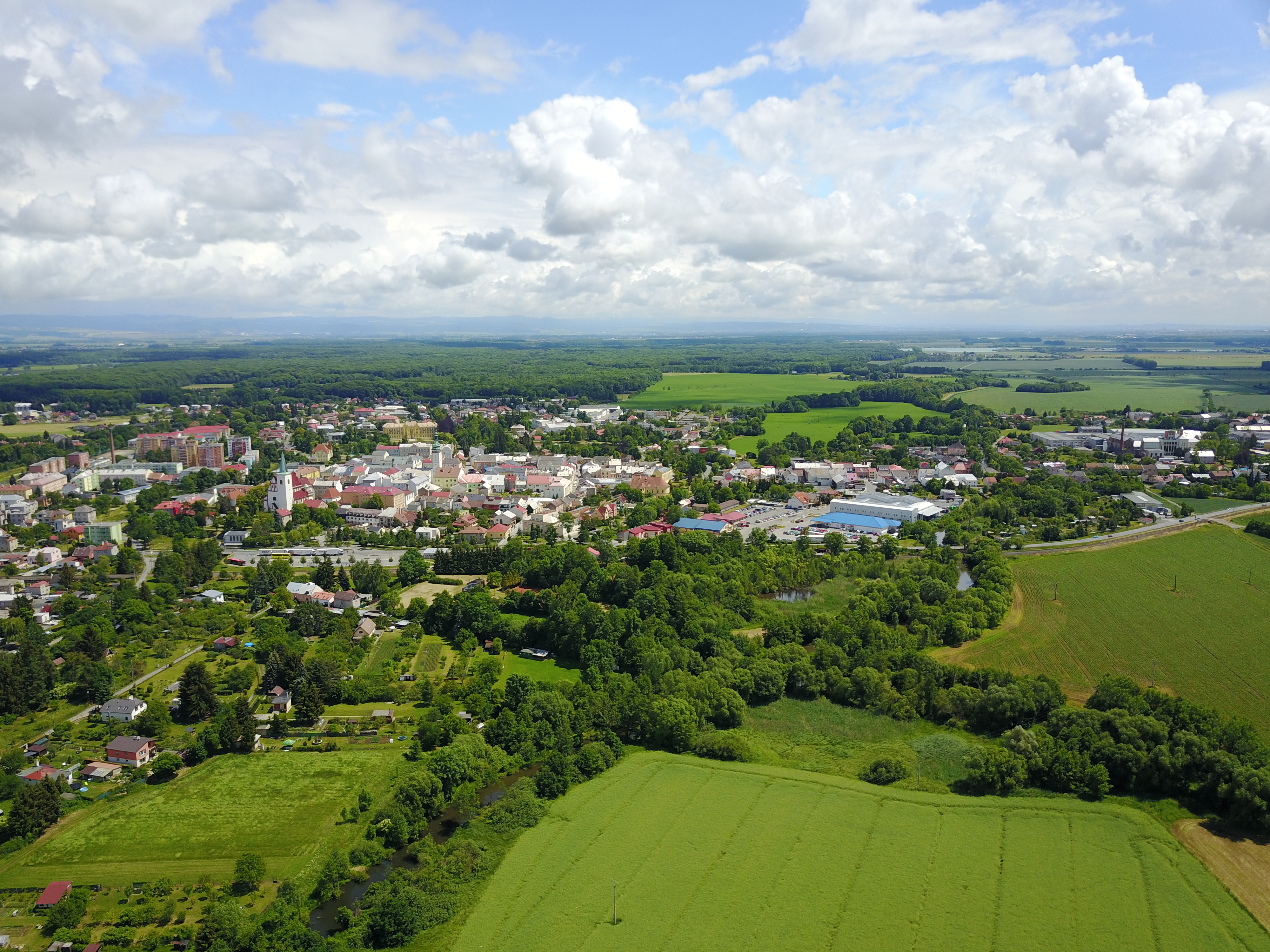 Confluence of the Malá voda and the Mlýnský potok near the natural monuments of Malá Voda and Hvězda at the town of Litovel, Olomouc District, Czech Republic